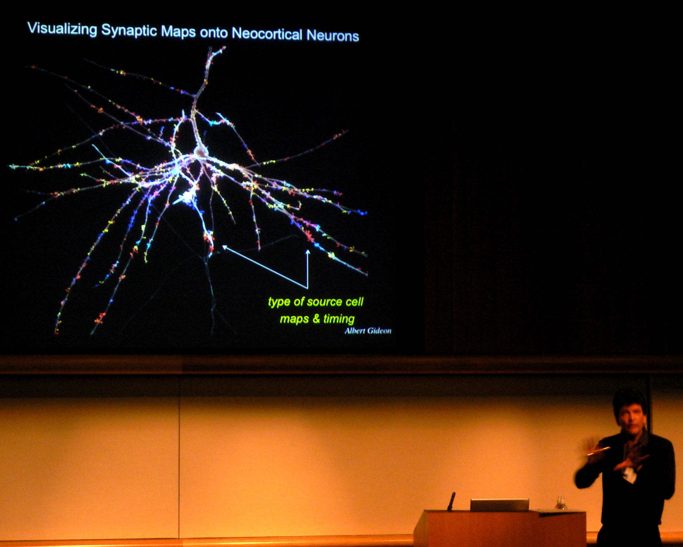 Henry Markram: Visualizing Synaptic Maps onto Neocrortical Neurons